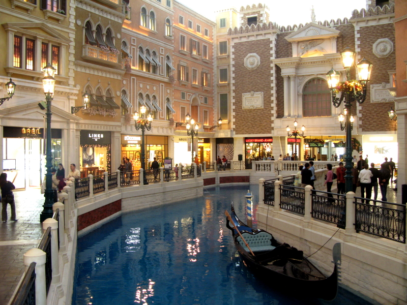 The Venetian Macao San Luca Canal